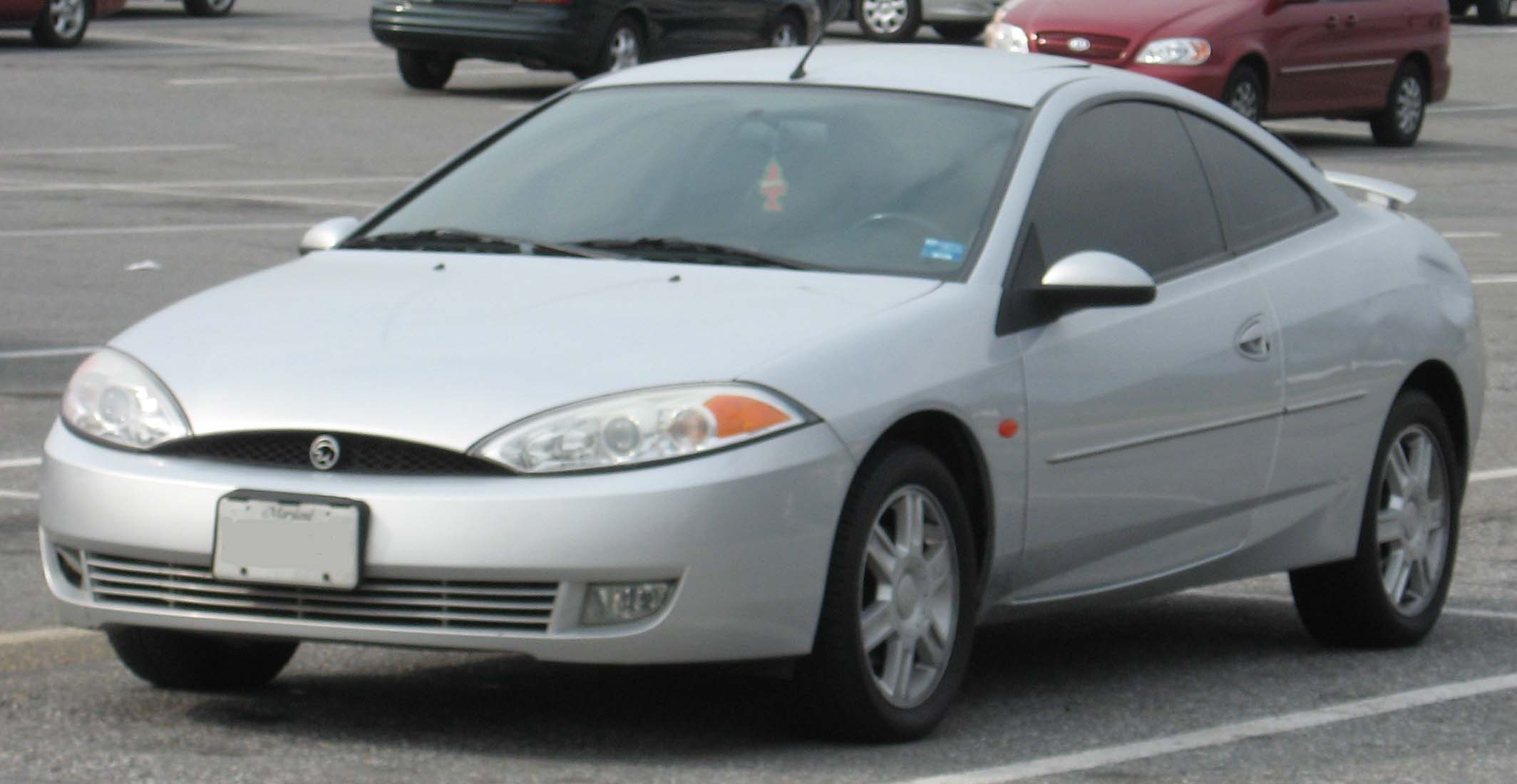 2001-2002 Mercury Cougar photographed in USA.